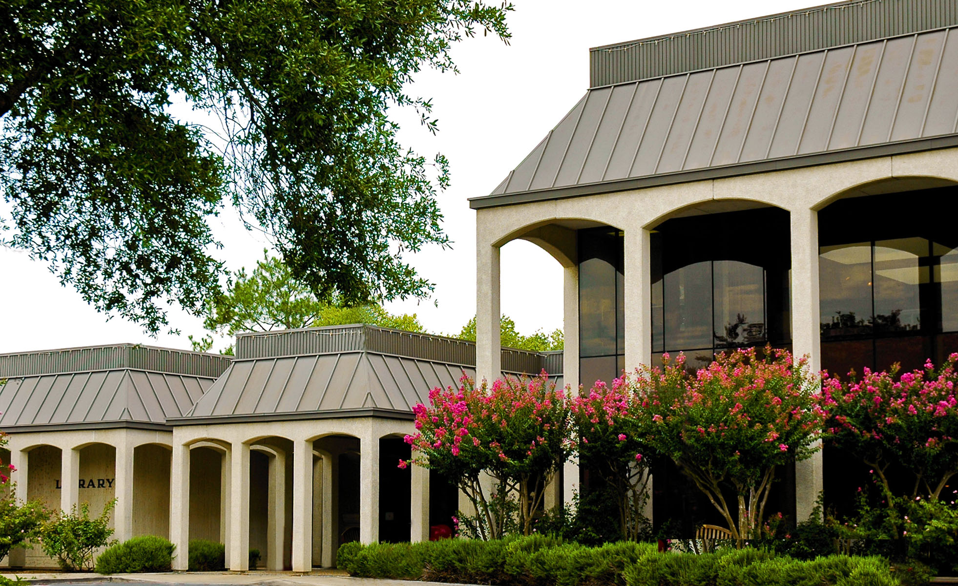 Exterior view of Helen Hall Library in League City, TX.